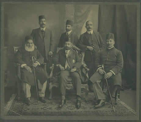 L-R(Chairs): Nawab Viqarul Mulk, Raja Mahmudabad, Sahabzada Aftab Ahmad Khan* L-R(standing): Mr. Miya(n) Sadiq Ali Khan, Sir Ziauddin Ahmad, Mr.Shaikh Habibullah